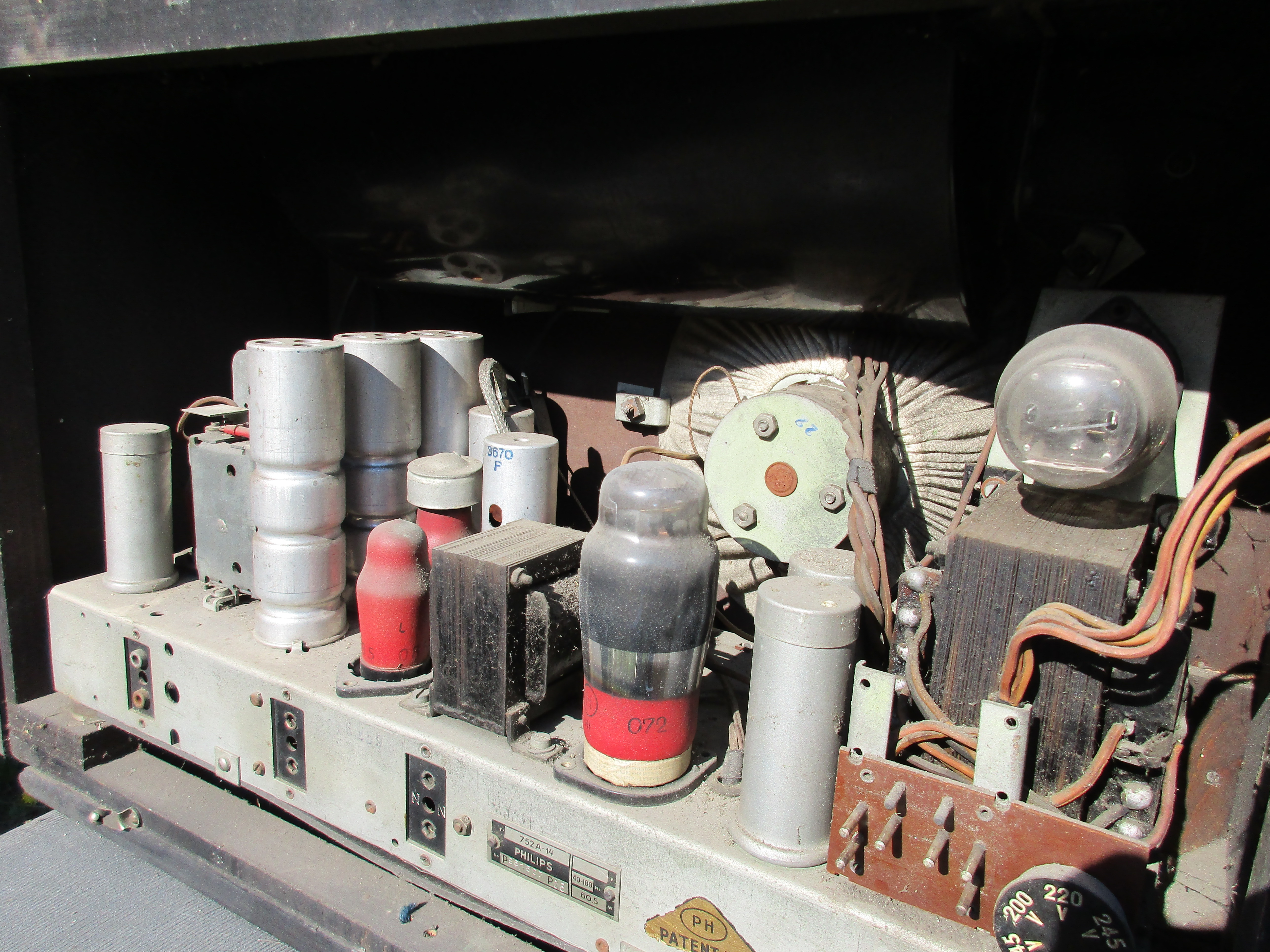 Old Philips radio receiver. According to [1], the 752A chassis was built in 1938-1939 in Netherlands, Germany, Chezchoslovakia etc. This was intended for large, upscale multiband receivers. The 'wrinkled' whitish thing that looks like a damaged woofer cone is actually the original, factory-installed silk sleeve wrapped around the woofer.